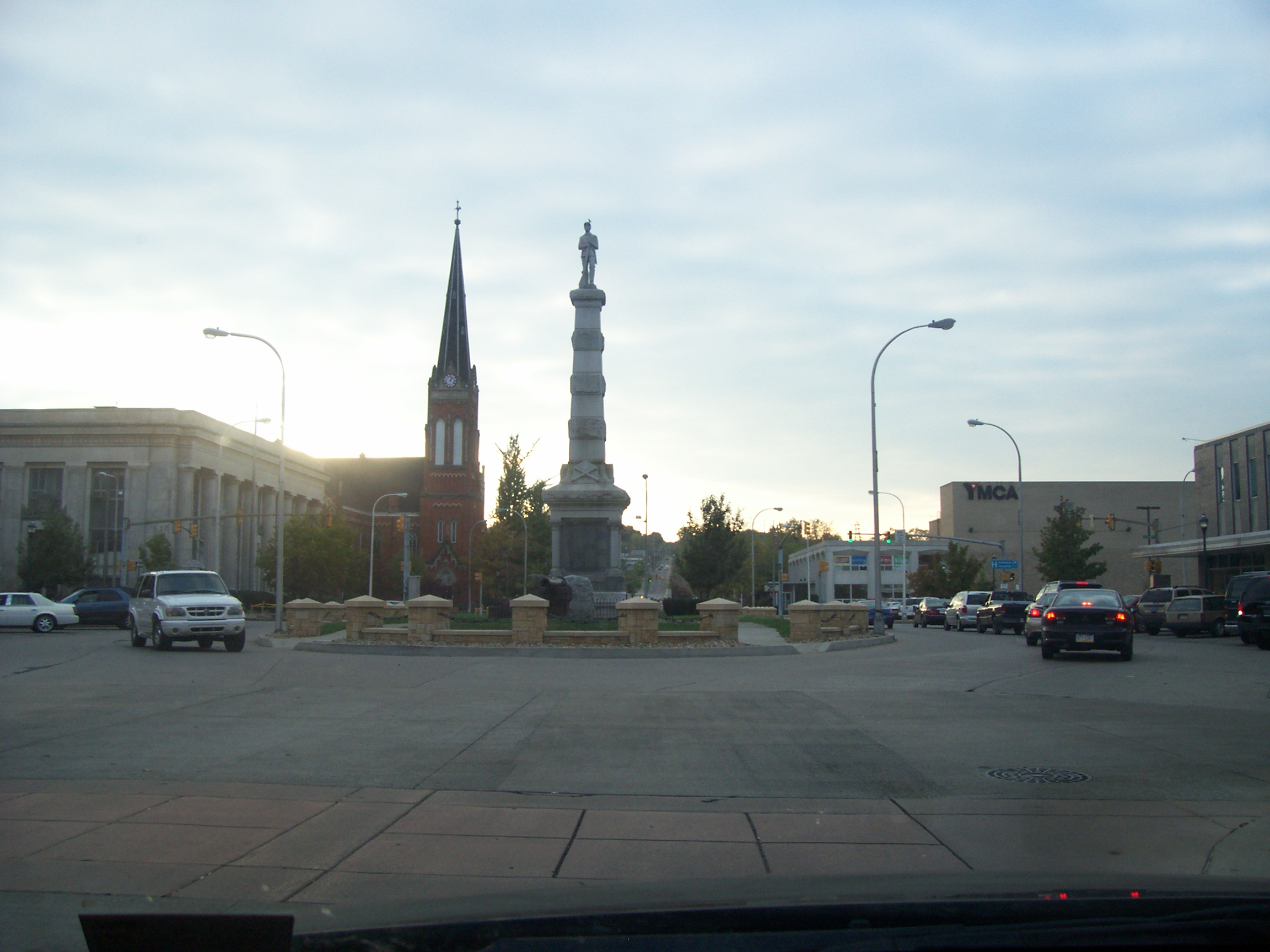 Kennedy Square in downtown New Castle, Pennsylvania, United States. Church tower to the left of the monument is the former First Christian Church, built 1864.